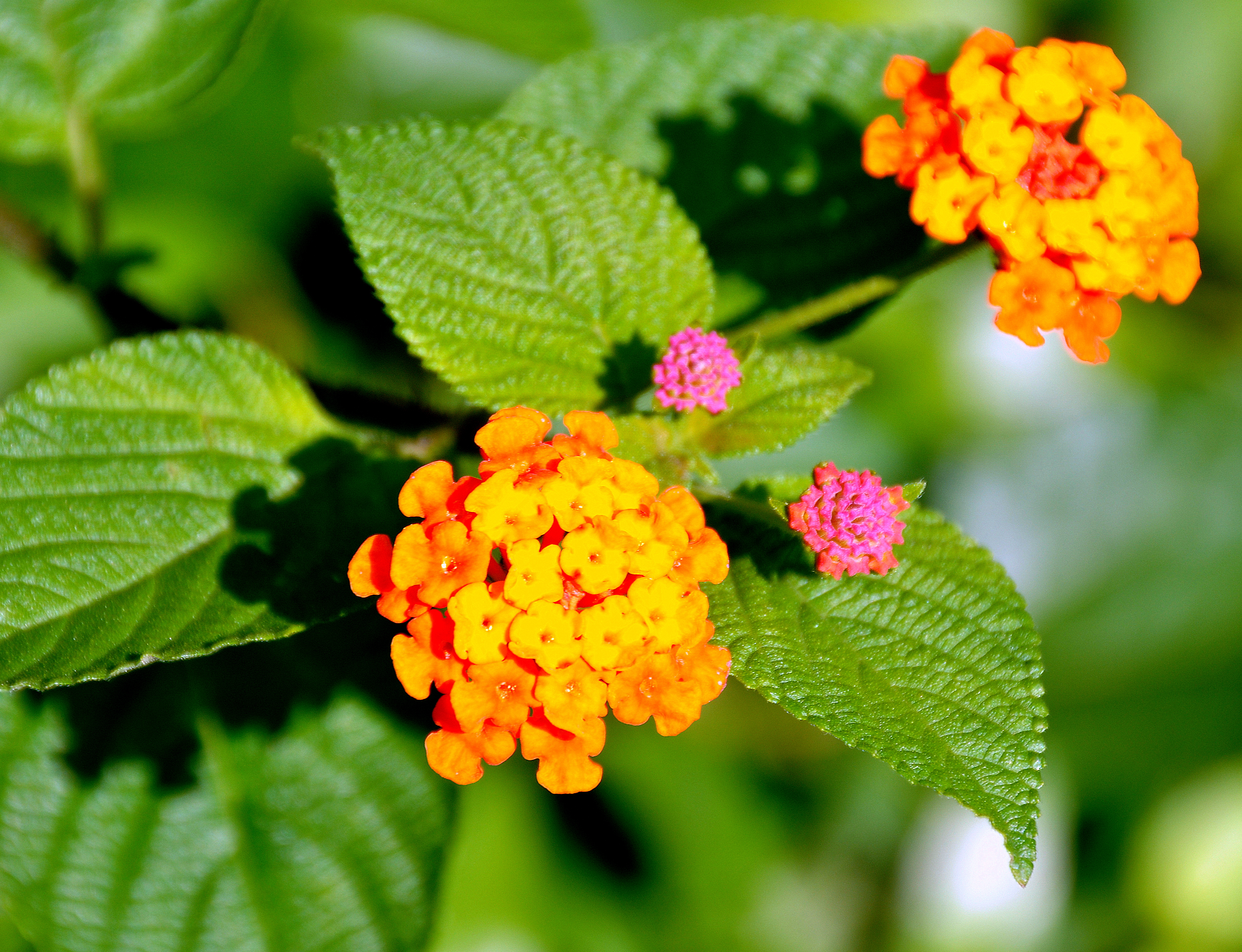 Growth in Taiwan, various areas, Lantana camara.